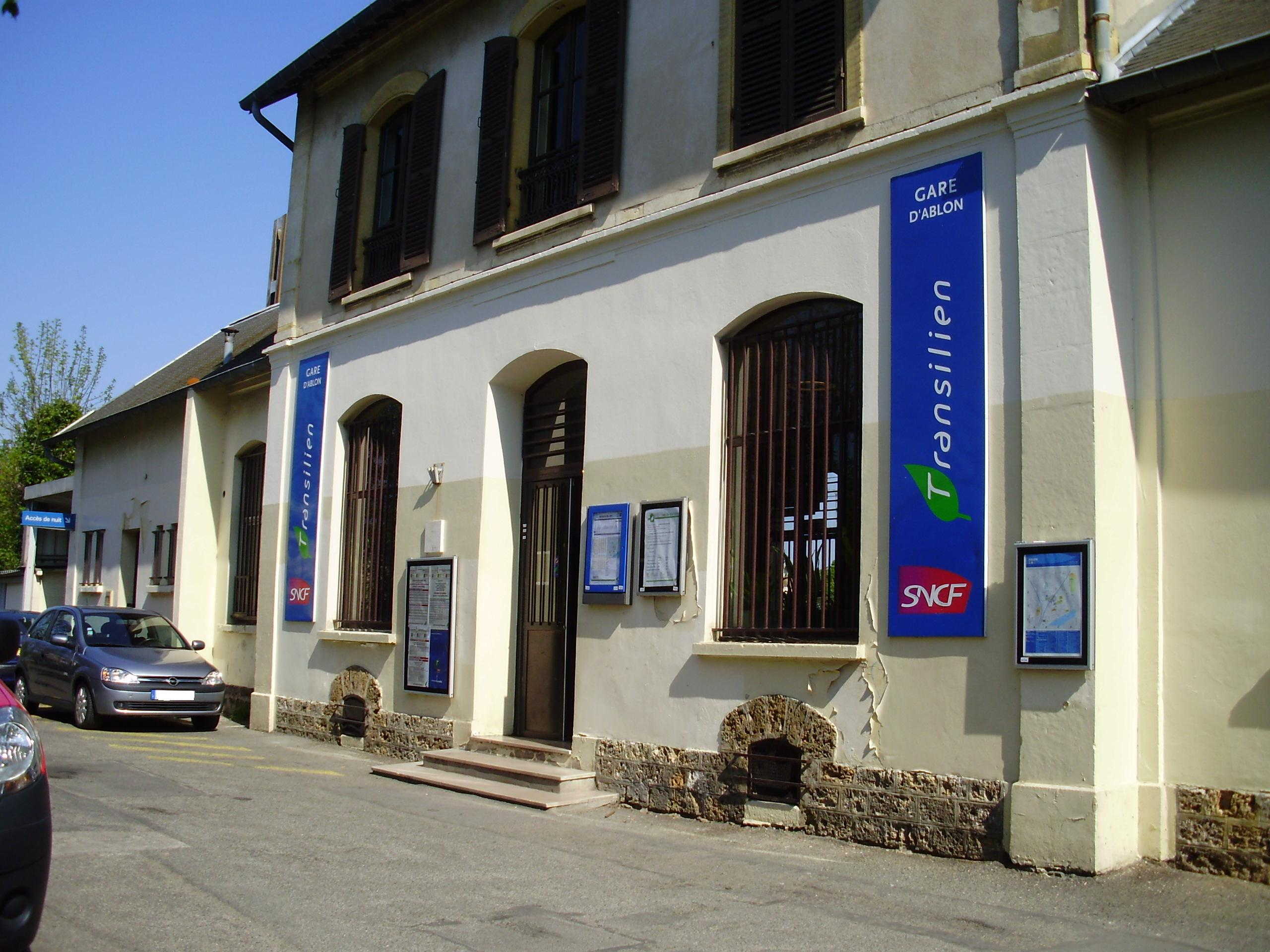 Entrance of Ablon station, in Ablon-sur-Seine, Val-de-Marne, France